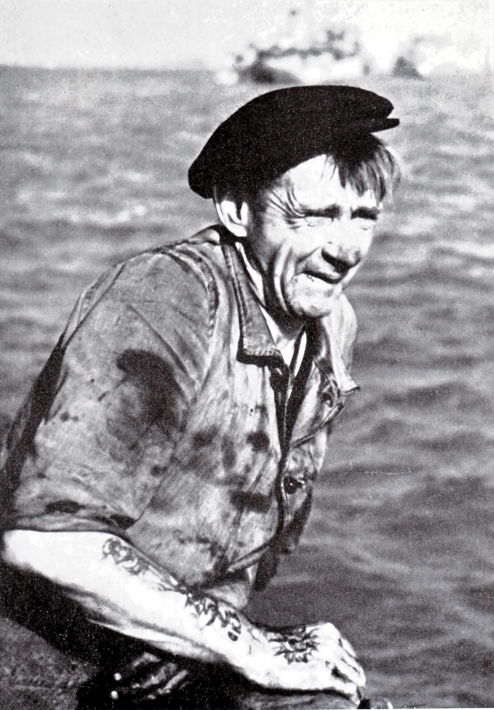 Sailor "Ola" aboard merchant ship Vestmanrød during Normandy invasion